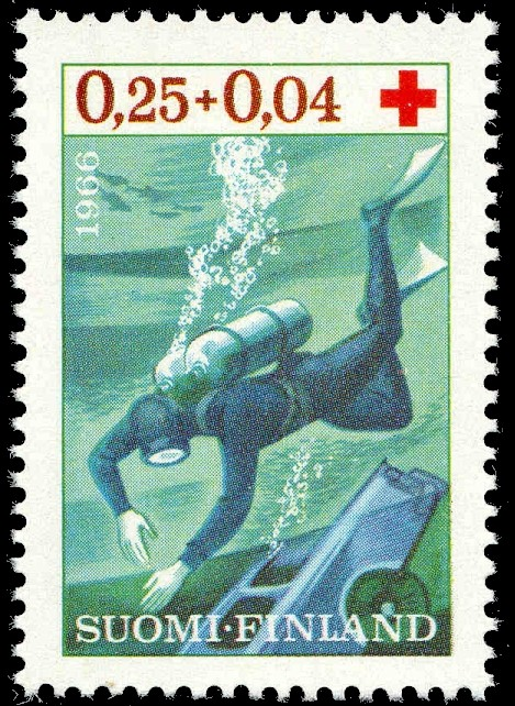 Postage stamp illustrating rescue diving in Finland